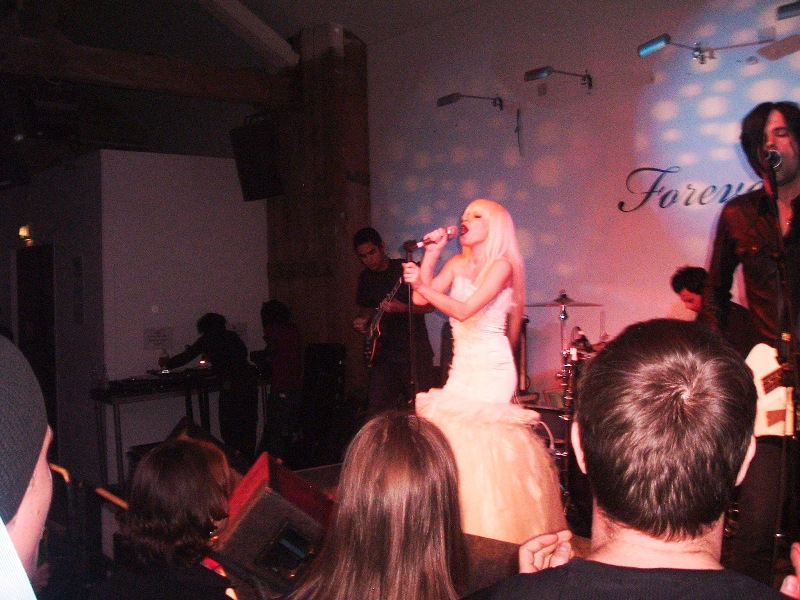 Kerli performing in London in 2008.